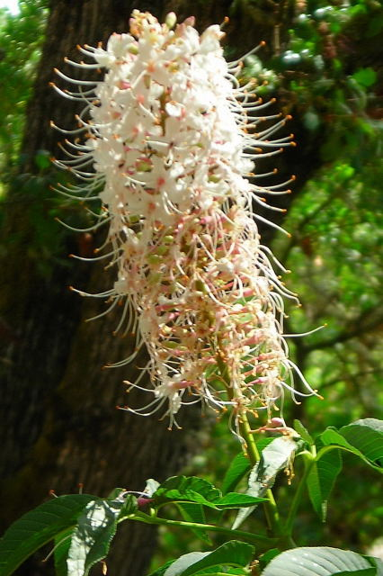 Flower spike of Aesculus californica — taken in Monte Sereno, in the Santa Cruz Mountains. In Santa Clara County, California.